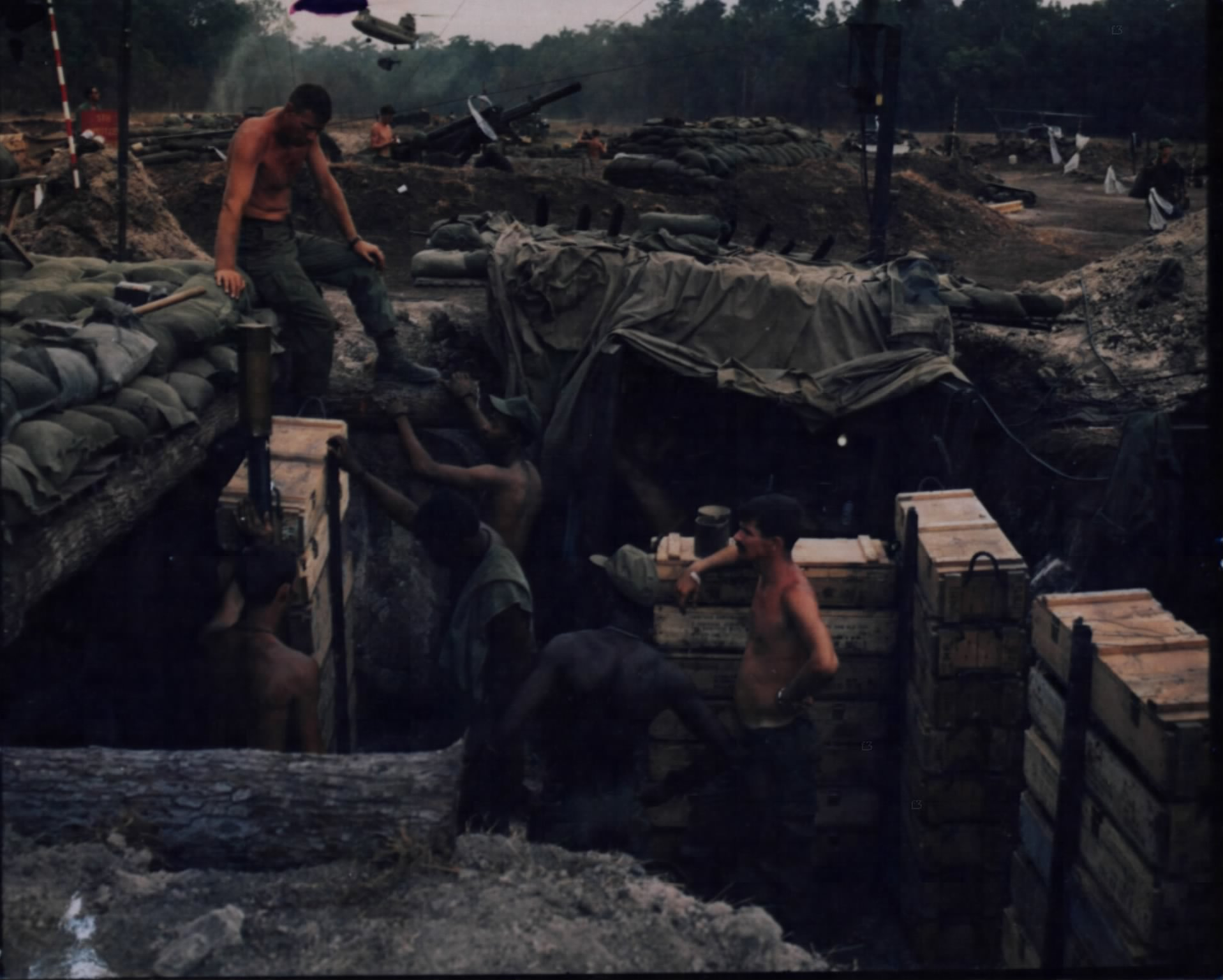 Work continues on the improvement of the bunkers at the VHF site at Fire Support Base Jay by men of the 2nd Battalion, 8th Regiment, 1st Cavalry Division. The battalion tactical operations center (TOC) is to the left and the VHF bunker is at center right. In the distance of CH-47 Chinook helicopter drops off supplies.